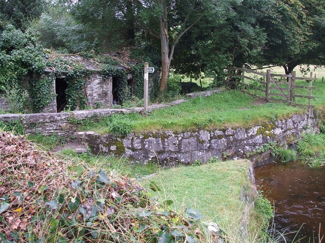 By the Lynher, Bathpool. Taken from by the bridge over the River Lynher on the western edge of the village of Bathpool. Some kind of slipway into the river can be seen here (see 534085), with an old stone building behind. It was perhaps a loading point for goods from the nearby mill. A public footpath is seen heading off beside the river, but looking at the map it doesn't seem to go very far.